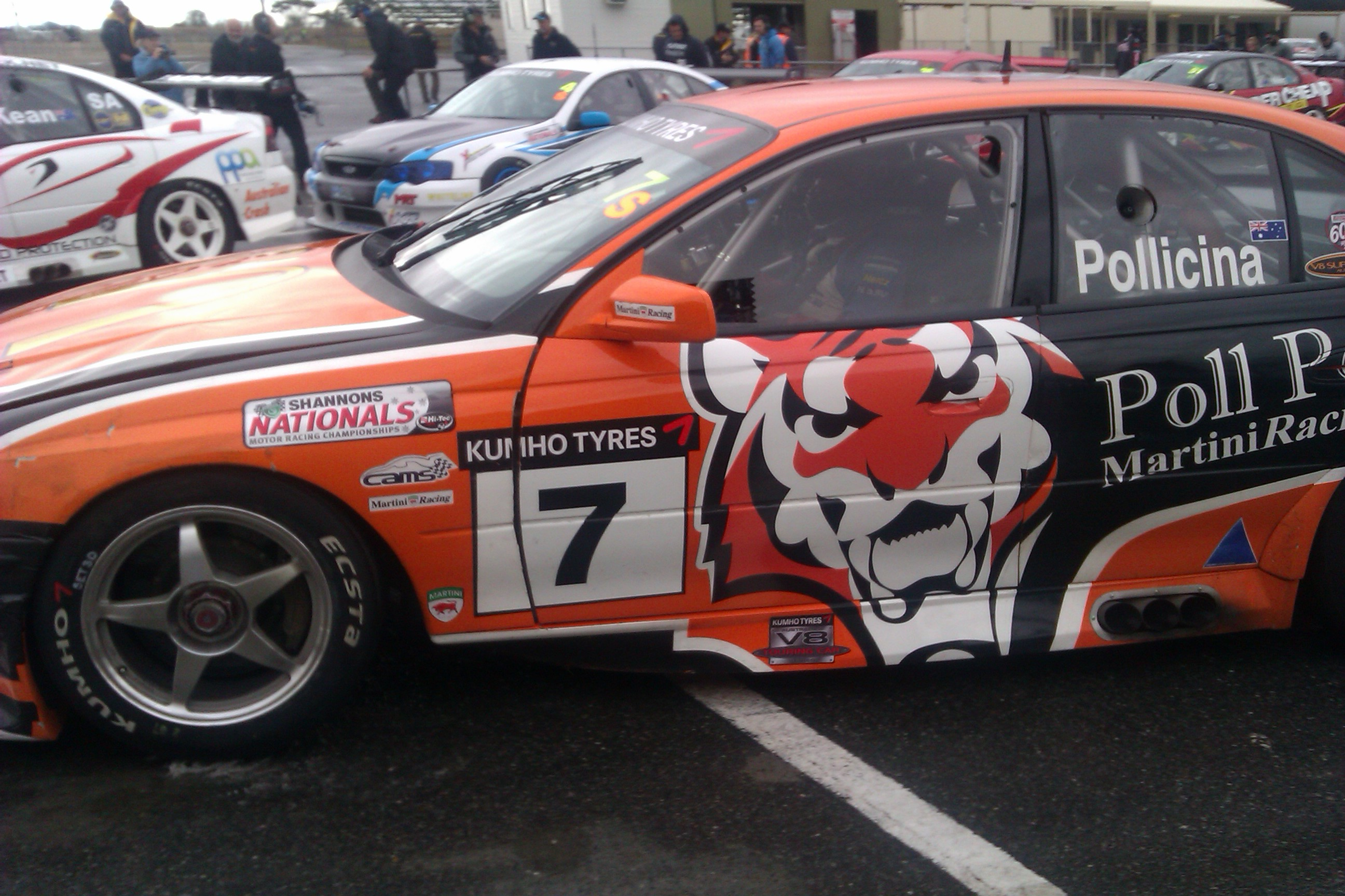 The Holden VZ Commodore of Jim Pollicina at Mallala Motor Sport Park on 21 April 2013. Pollicina was contesting Round 2 of the 2013 Kumho Tyres V8 Touring Car Series.